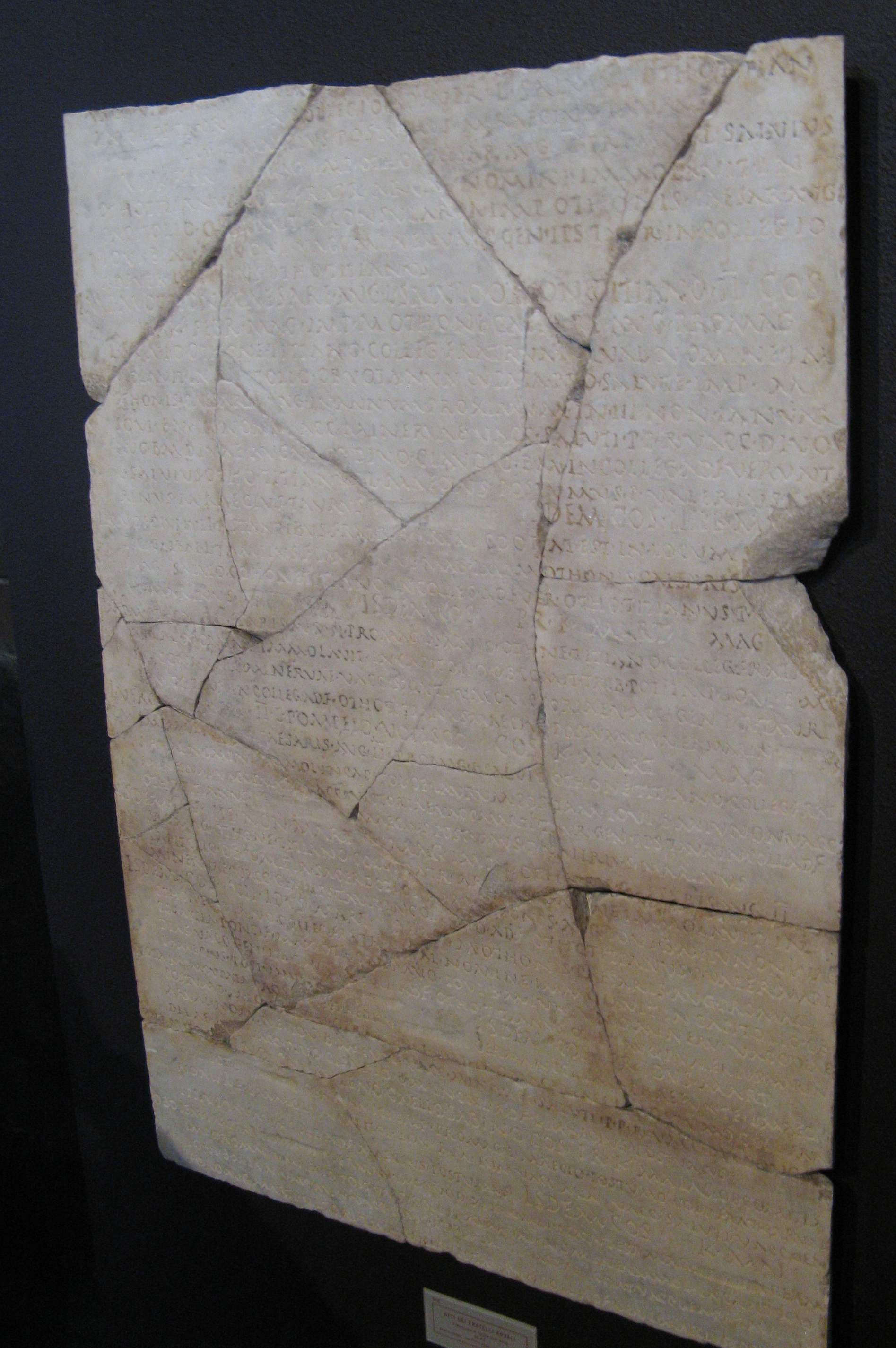 Ancient Roman inscription from Rome. Acta Fratrum Arvalium of AD 69.